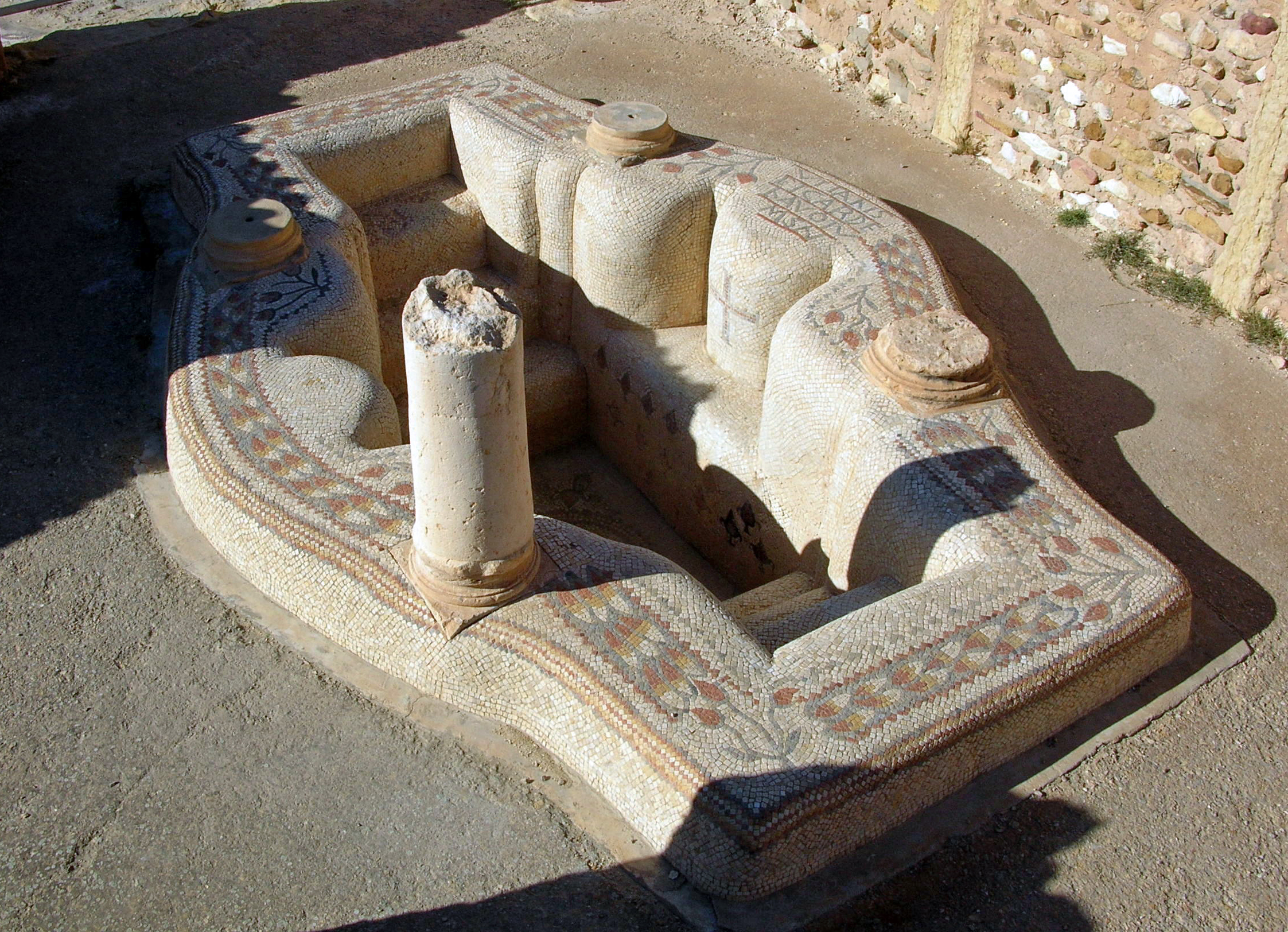 Baptistry basin of the church of Vitalis, Sbeitla, Tunisia